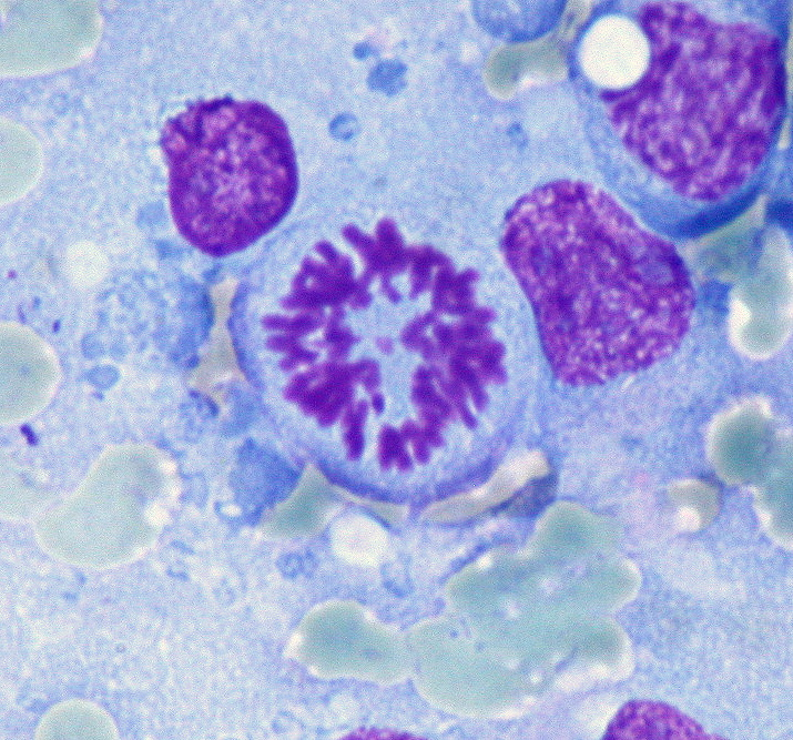 Mitosis In A Lymphoma Cell Mitosis In A Lymphoma Cell. Wright stain, 1000x.